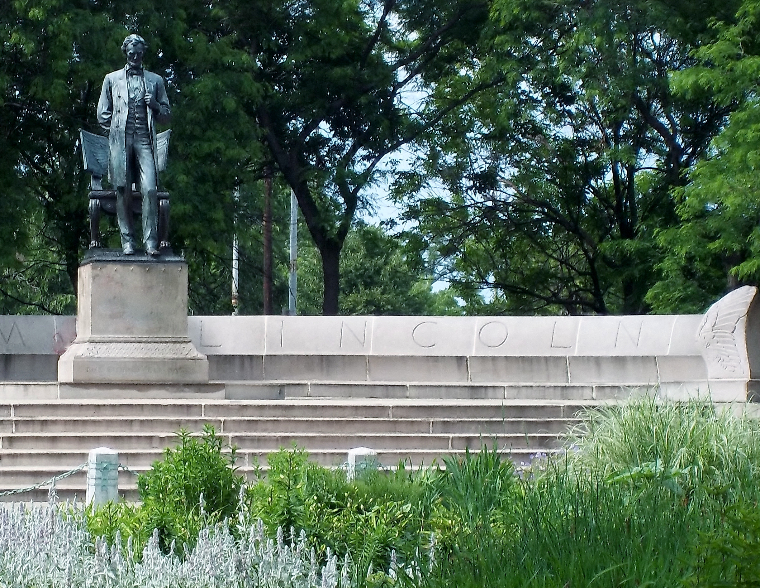 "Abraham Lincoln: The Man" monument in Lincoln Park Chicago. Abraham Lincoln 16th President of the United States. Statue by Saint-Guadens installed 1887. Pedestal and exedra by Stanford White